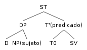 Strucuture of sentence as a Tense Phrase, in accordance with generalized endocentrical hypothesis